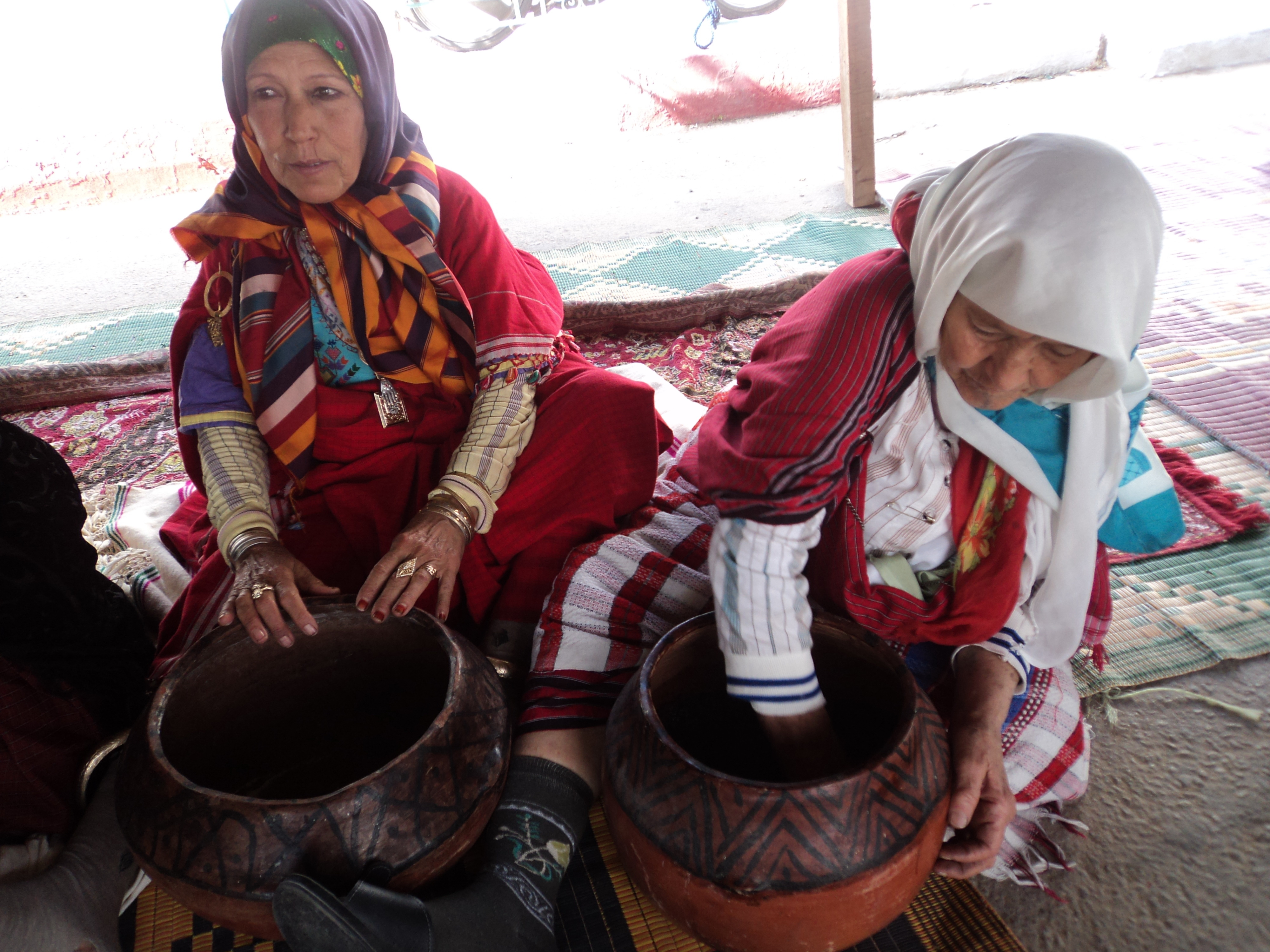 l'histoire en français